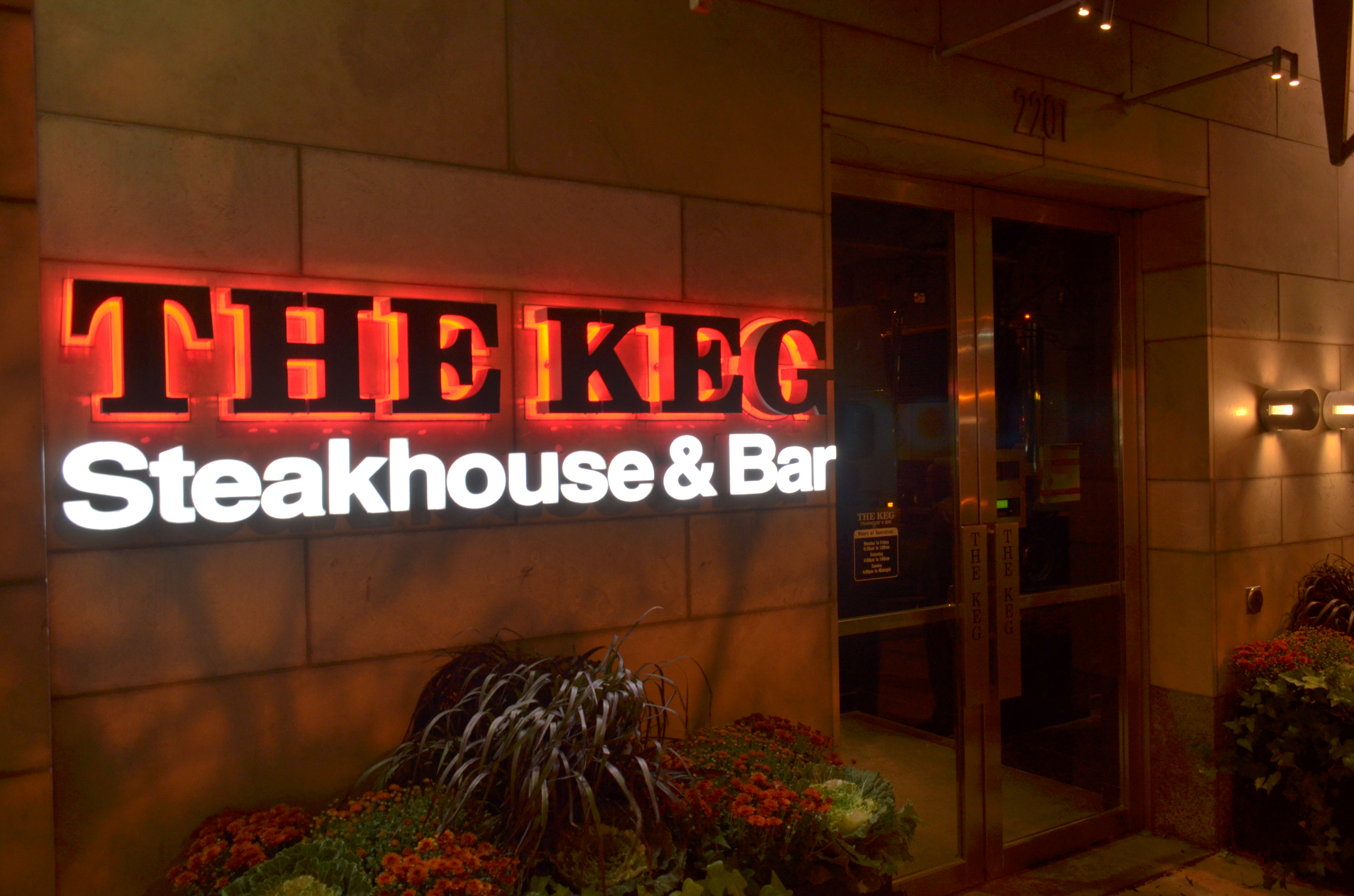 Yonge & Eglinton Keg - The Keg Steakhouse & Bar, 2201 Yonge St, Toronto